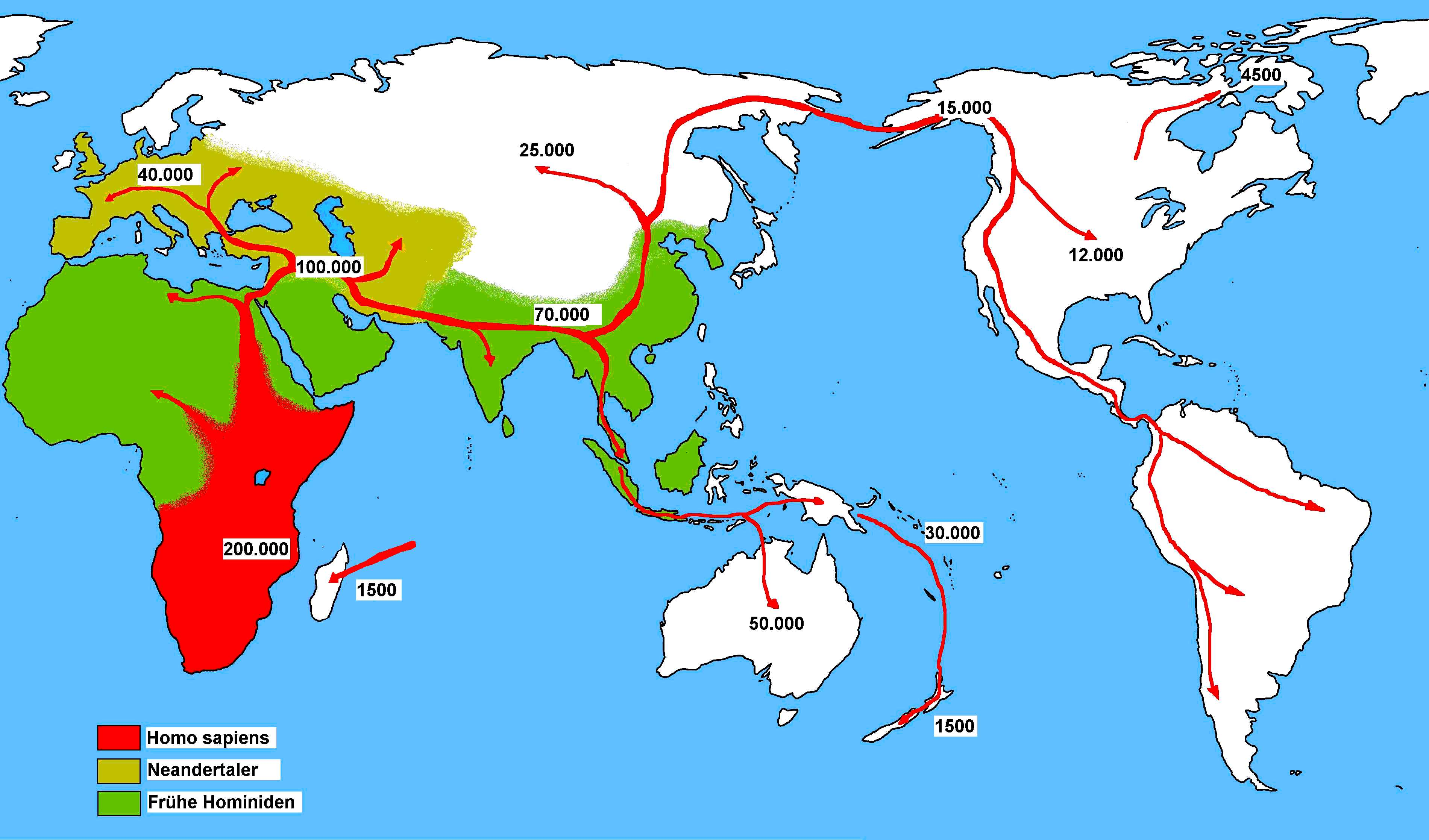 Homo sapiens spreading over the world, based on: Göran Burenhult: Die ersten Menschen, Weltbild Verlag, 2000. ISBN 3-8289-0741-5. This map shows the spread of Homo sapiens out of Africa and across the globe, with very approximate dates. Click on the image for a full size version which you can freely re-use and modify. 1 Homo sapiens 2 Neanderthals 3 "Early Hominids" [H. erectus]